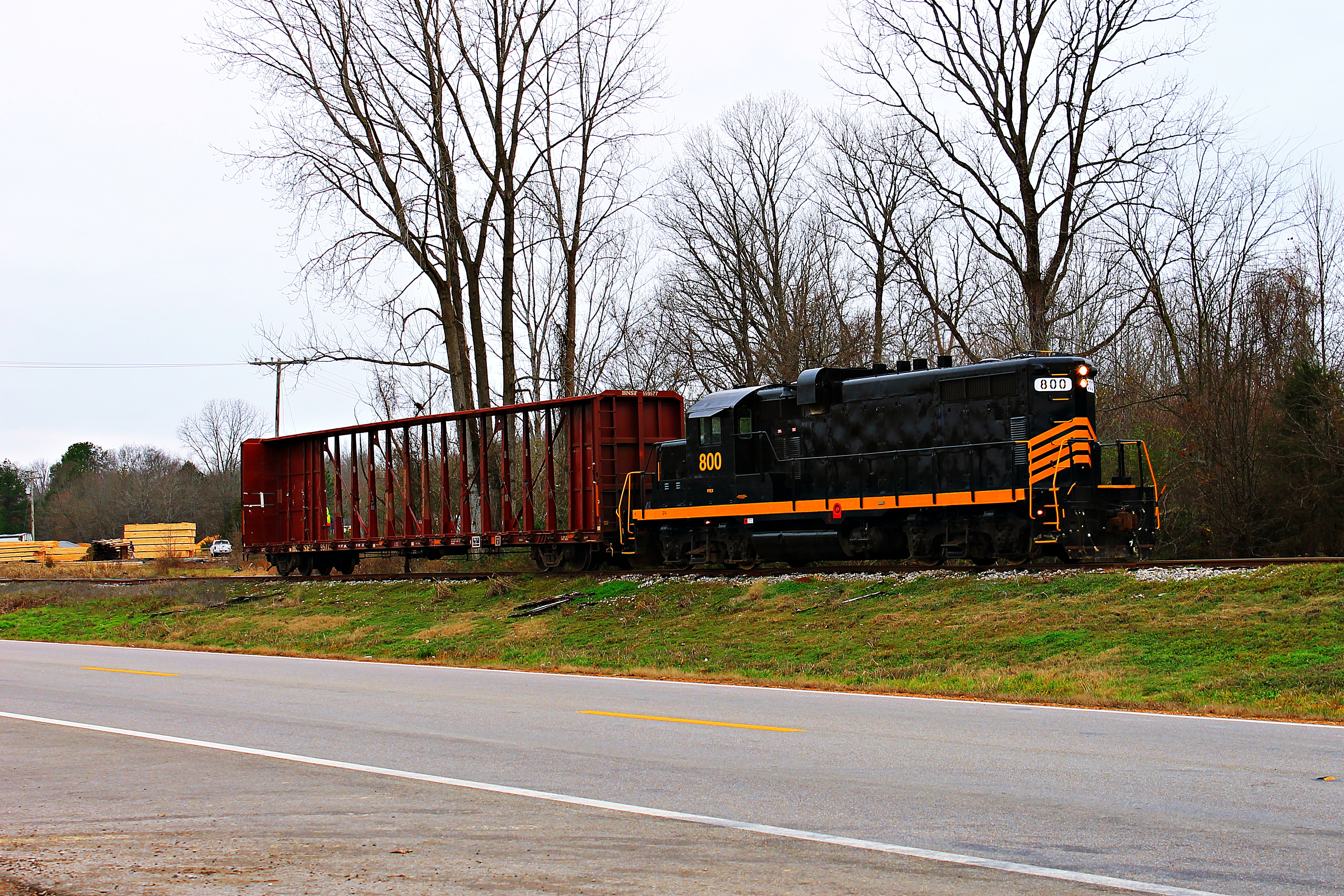 Pioneer Railcorp locomotive 800 switches for the Ripley and New Albany Railroad just south of Ripley, MS